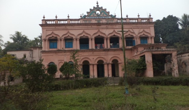 Nawab Faizunnesa House